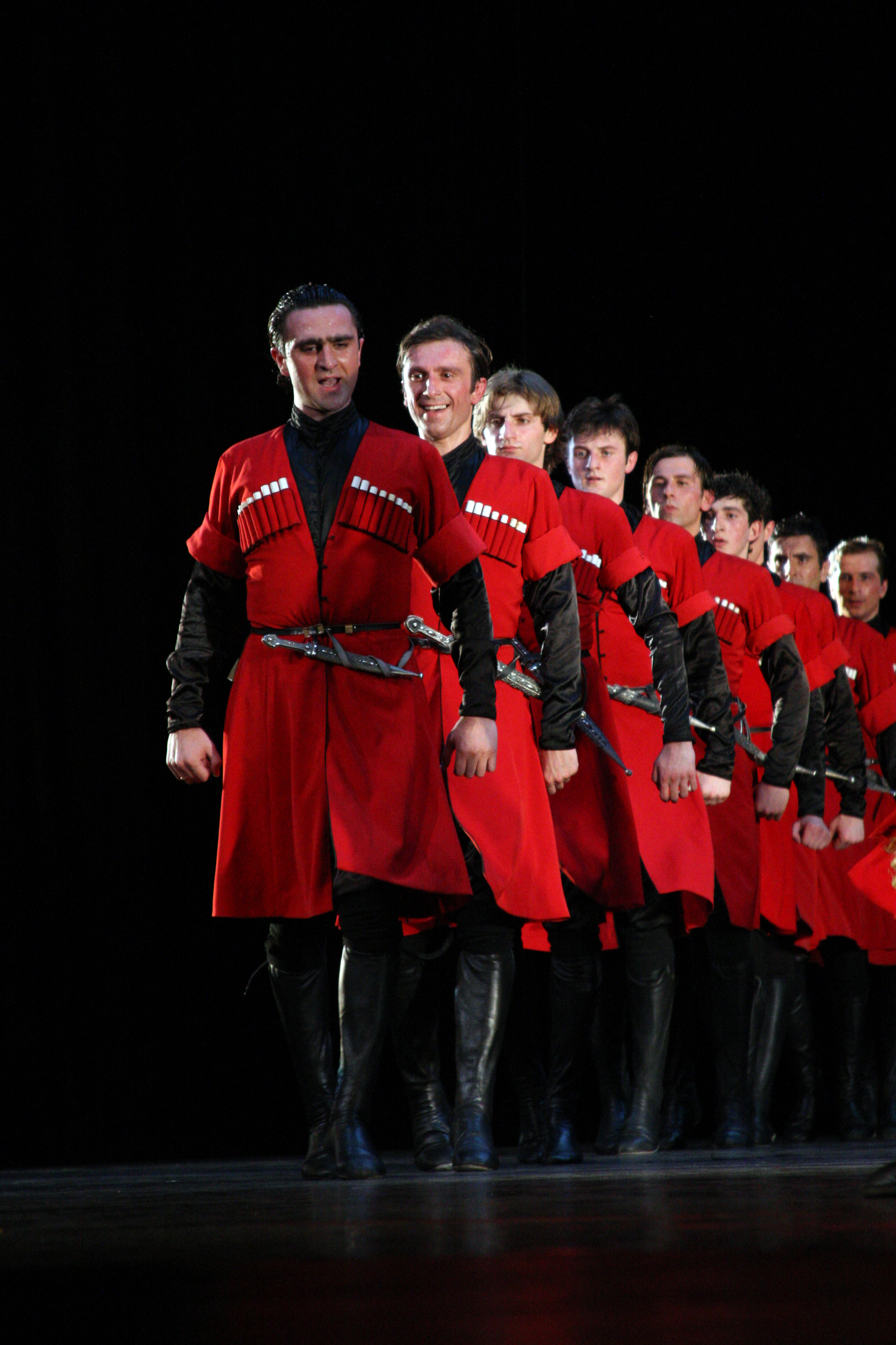 Ensemble Rustavi perforing dances of Georgia at the 20th independence anniversary celebration concert at the Lucent Danstheater in the Hague.